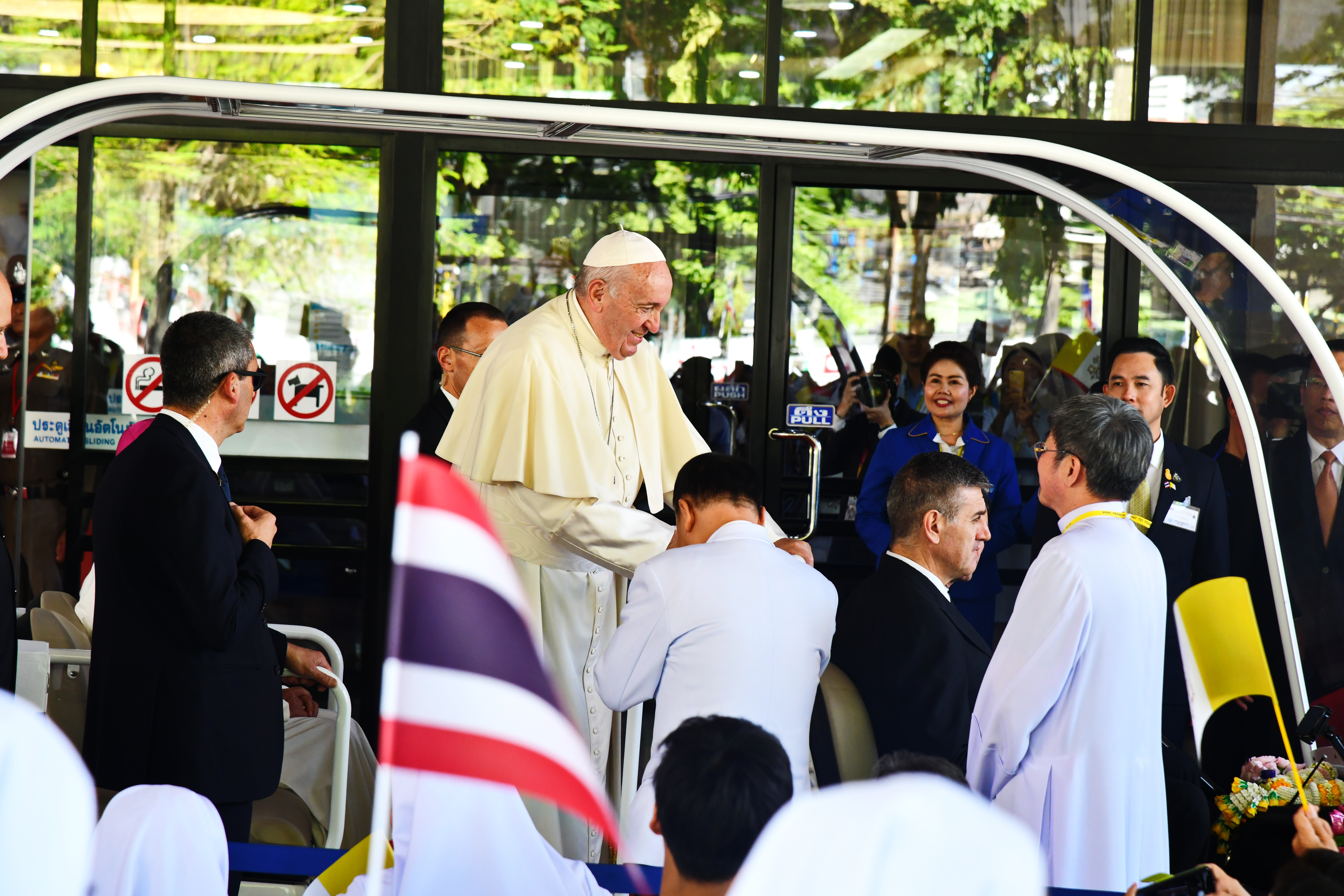 Pope Francis visit Saint Louis Hospital 21 November 2019